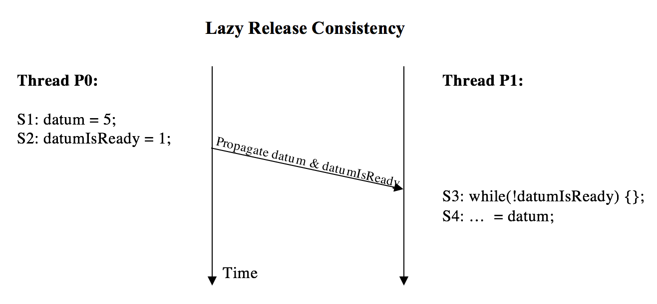 Lazy RC